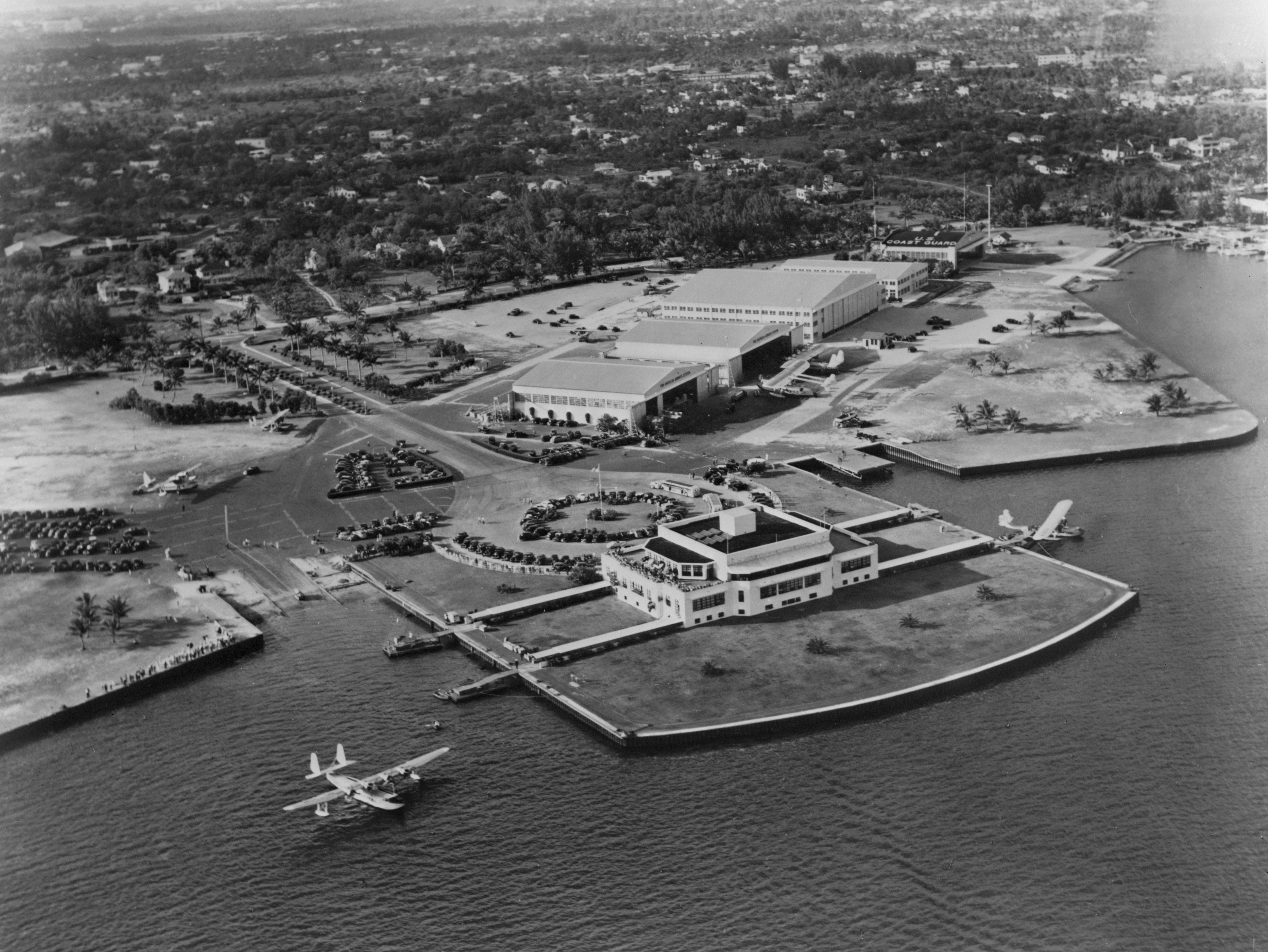 Aerial view of the Pan American Airways System Terminal Building, 3500 Pan American Drive, Miami, Dade County, Florida (USA).